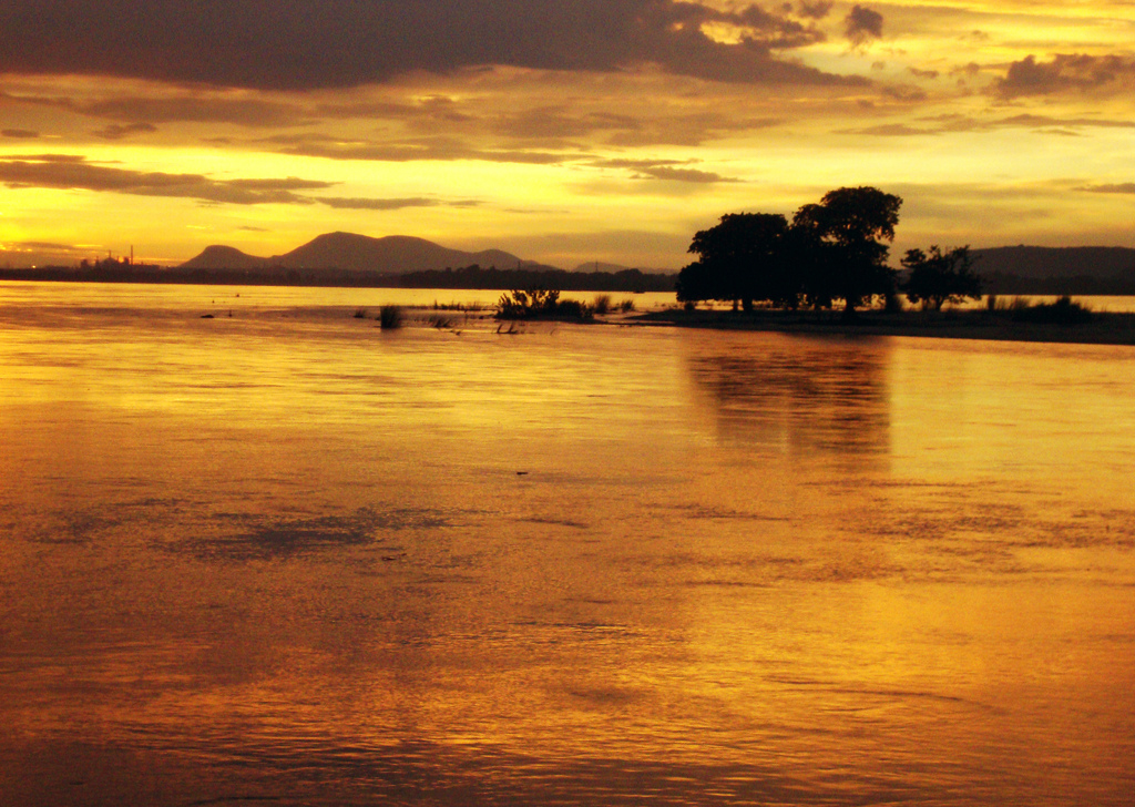 evening in cuttack